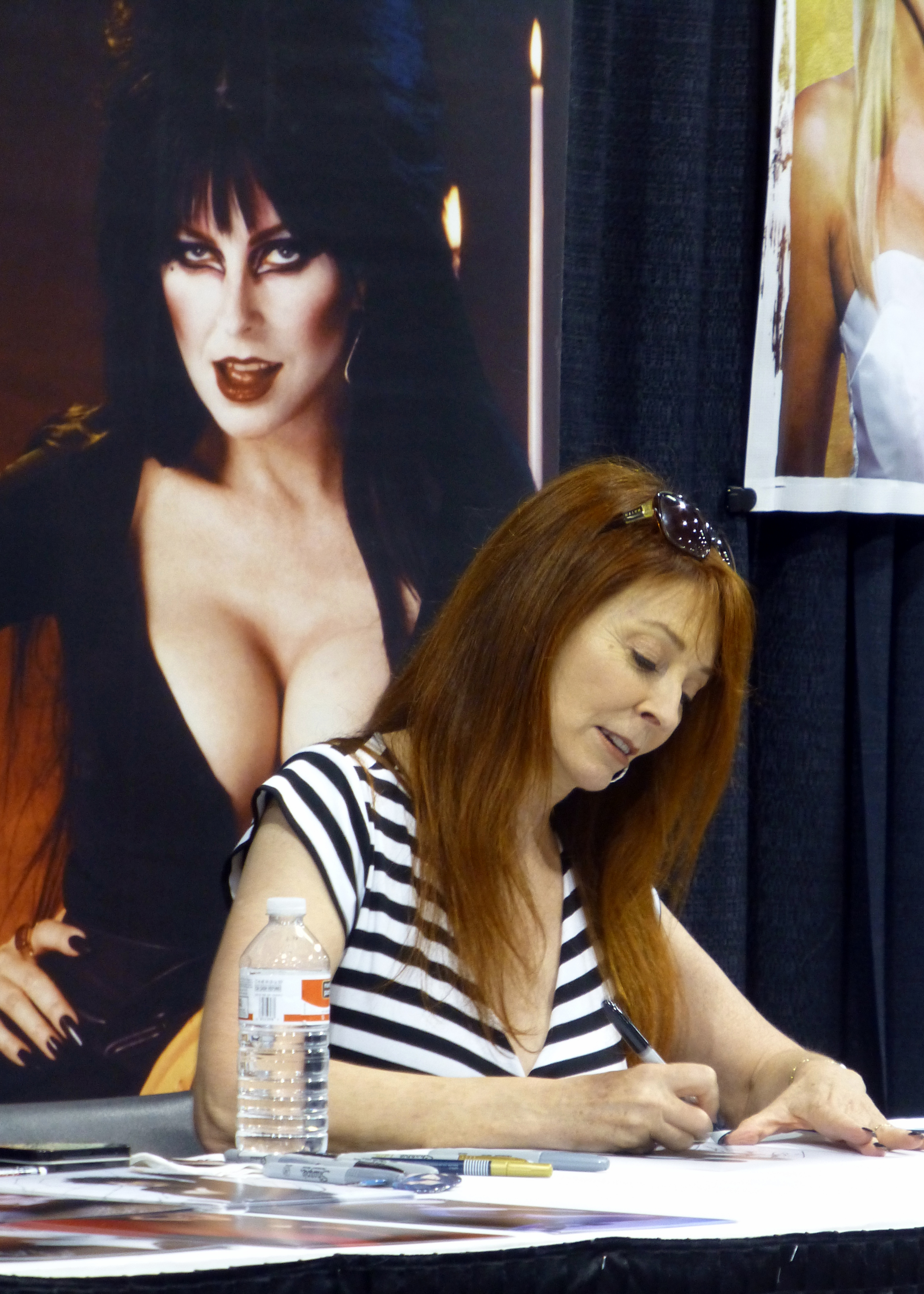 Guest at the 2014 Wizard World Chicago.